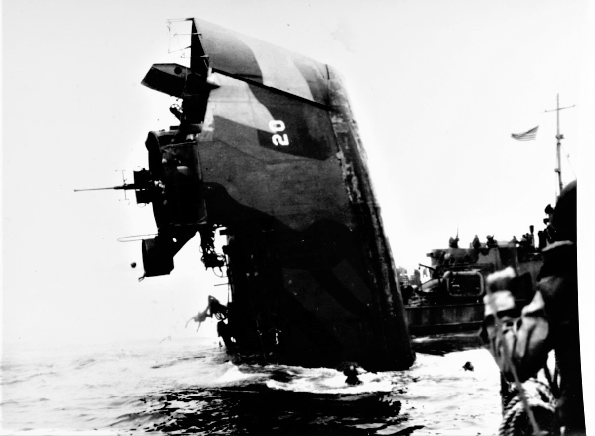 Lsm-20 sunk by kamikaze at Leyte